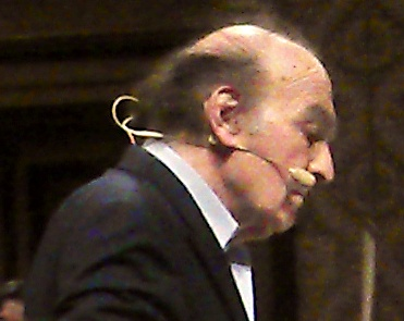 Samuel Pisar (rehearsal of L. Bernstein's 3rd Symphony "Kaddish", Prague, 2012).